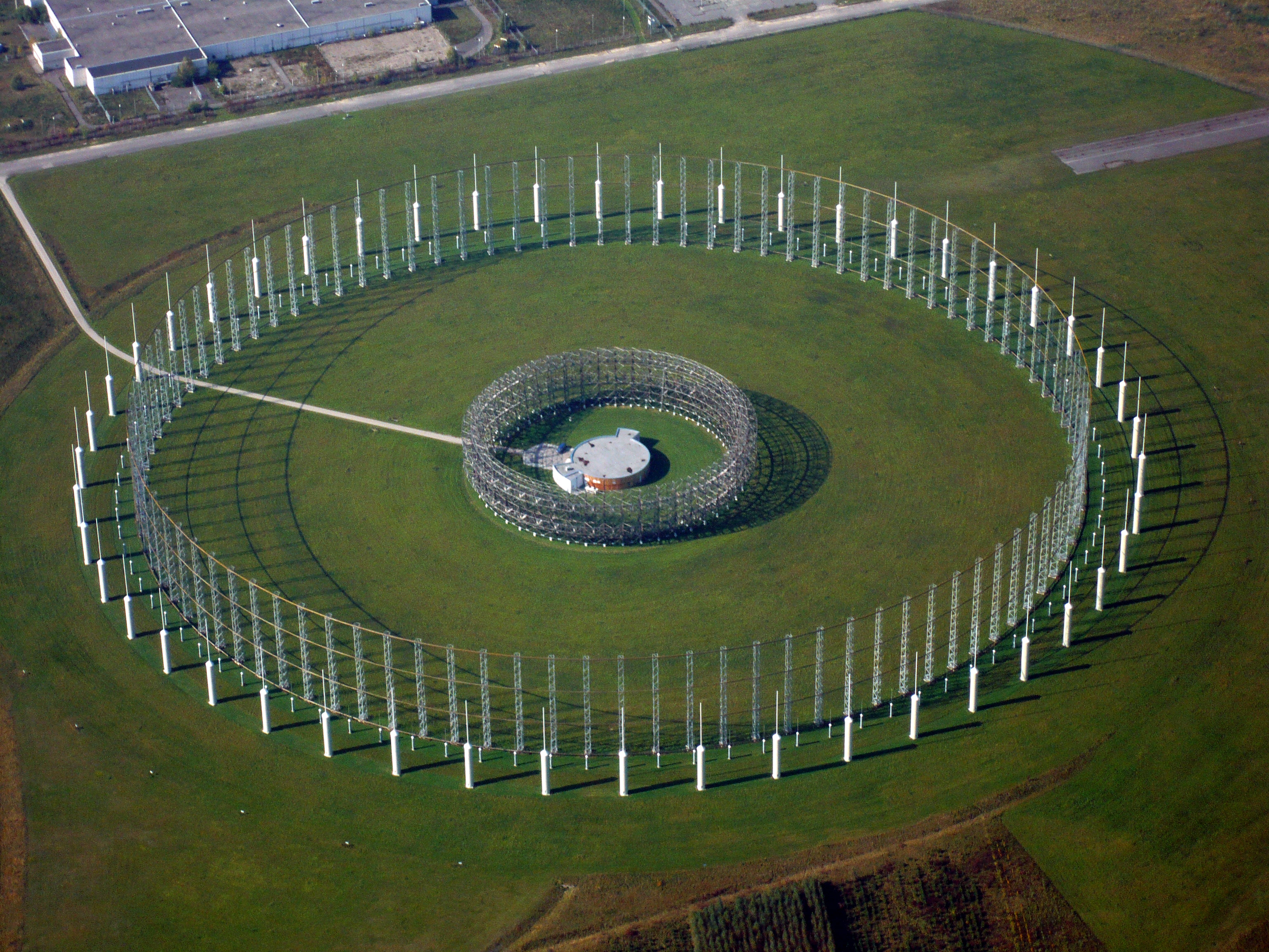 Aerial photograph of USASA Field Station Augsburg